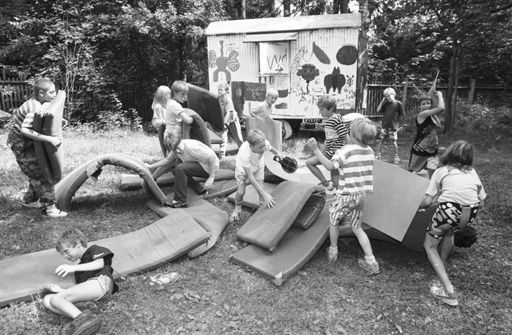 Local paper #78